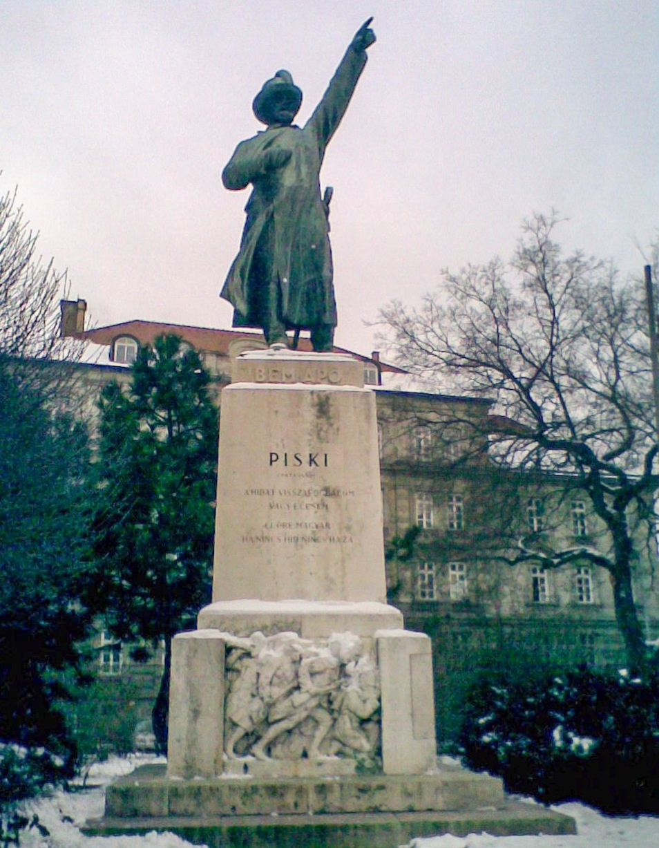 Statue of Jozef Bem, Budapest